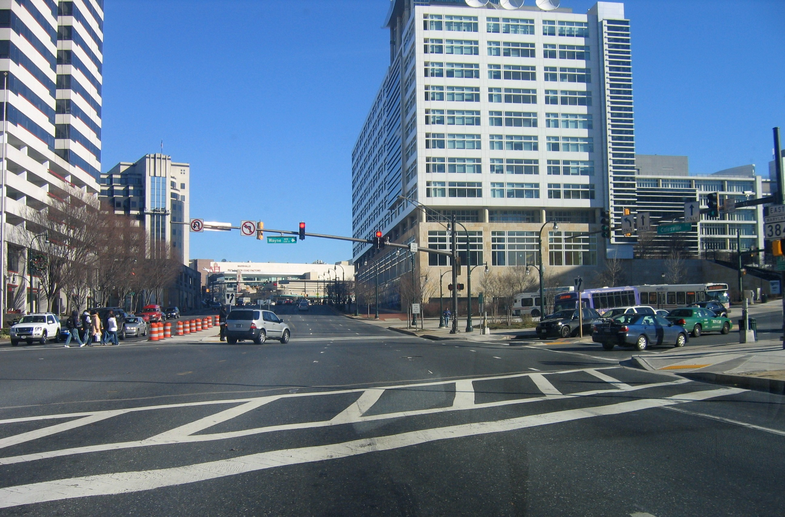 MD 384 at Second Avenue / Wayne Avenue, Silver Spring, Maryland